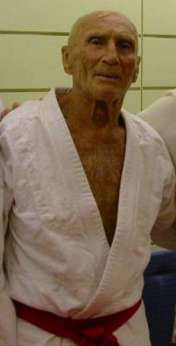 Helio Gracie at a seminar in 2004